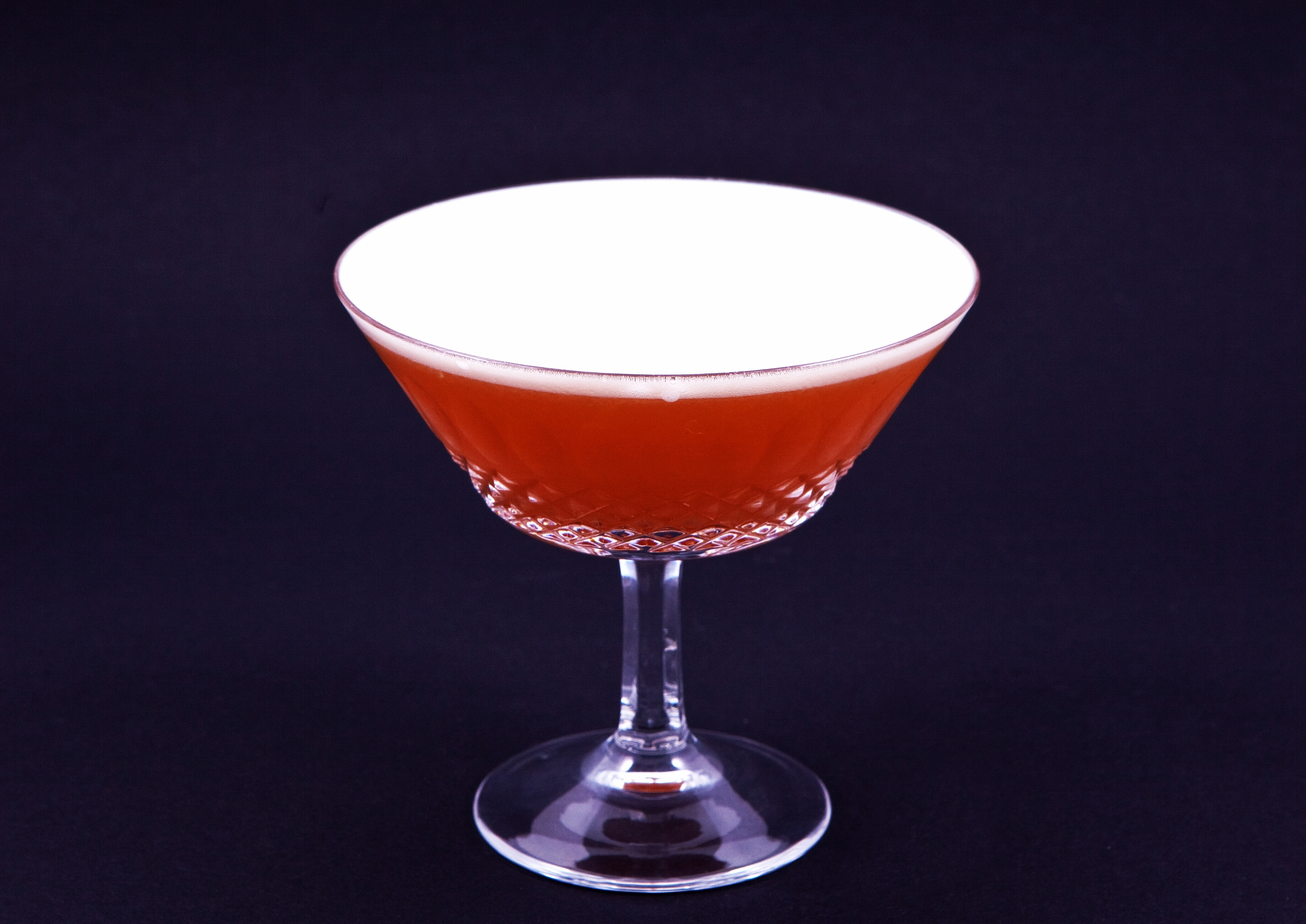 Whiskey Sour, a classic cocktail.